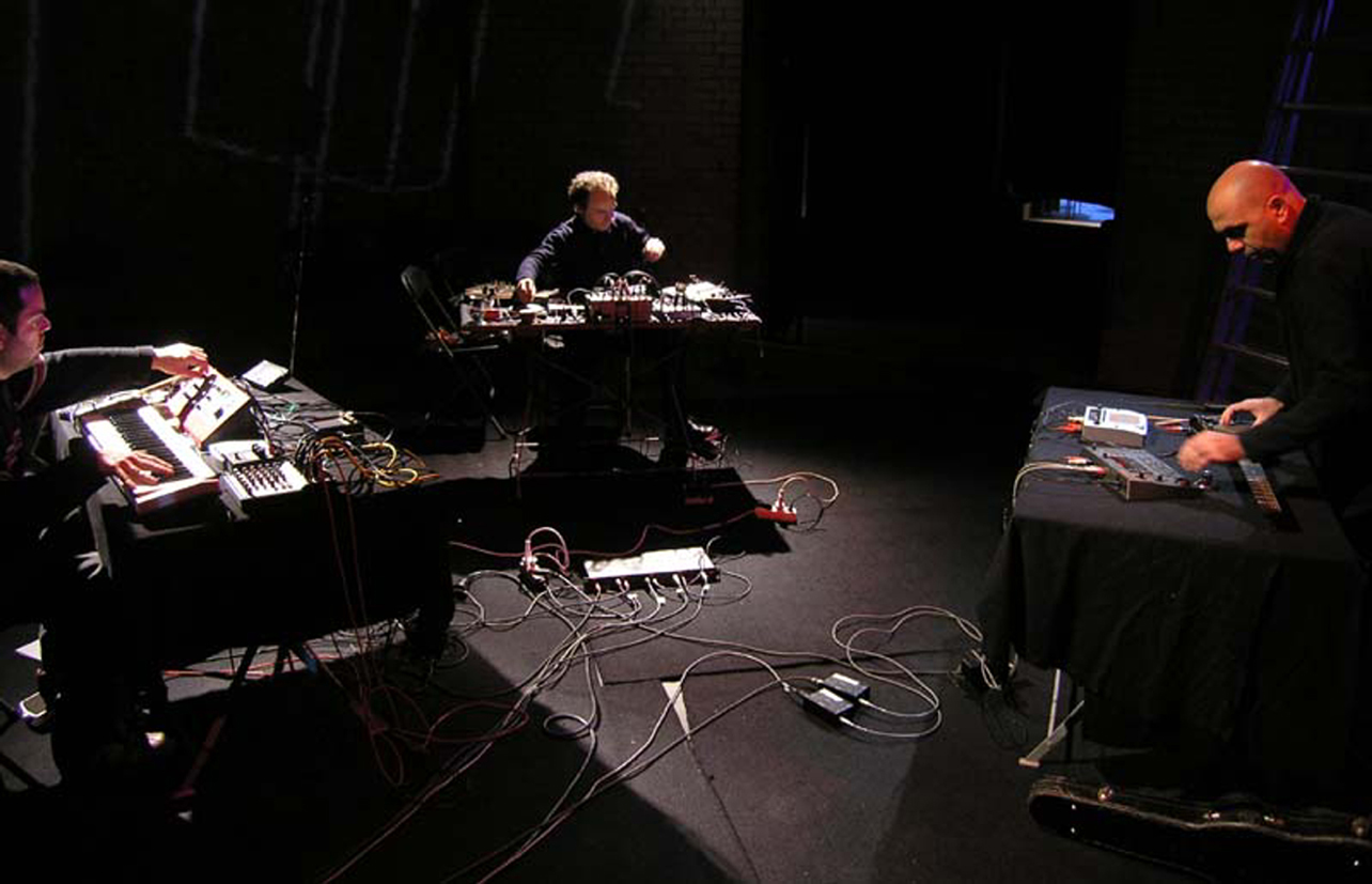 Berlin